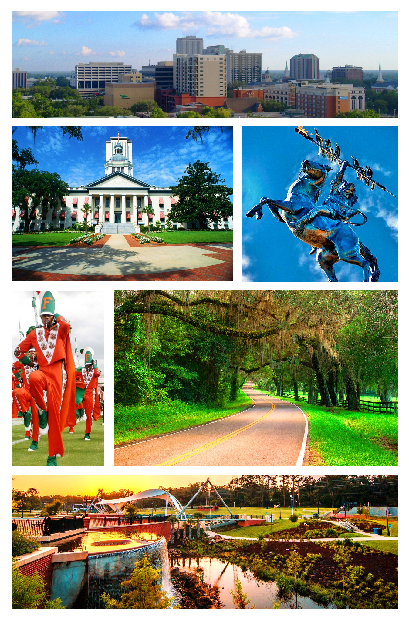 Revised Tallahassee header showing Tallahassee Skyline, Capitol, Unconquered, FAMU Marching 100, Old St. Augustine Canopy Road and Cascades Park